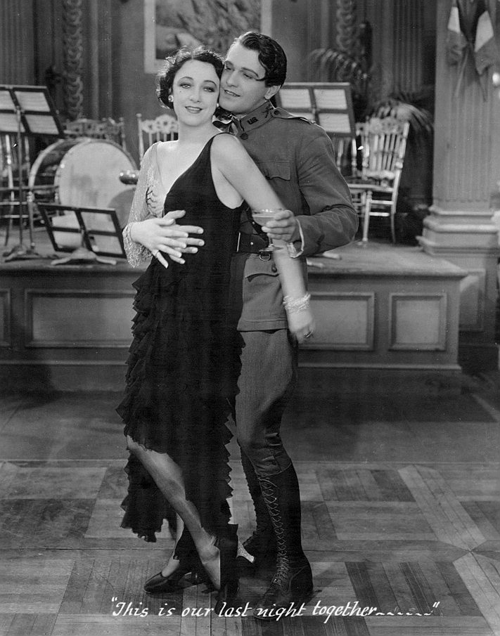 Photo from the 1929 film The Battle of Paris. The item has no copyright markings on it as can be seen in the links above.